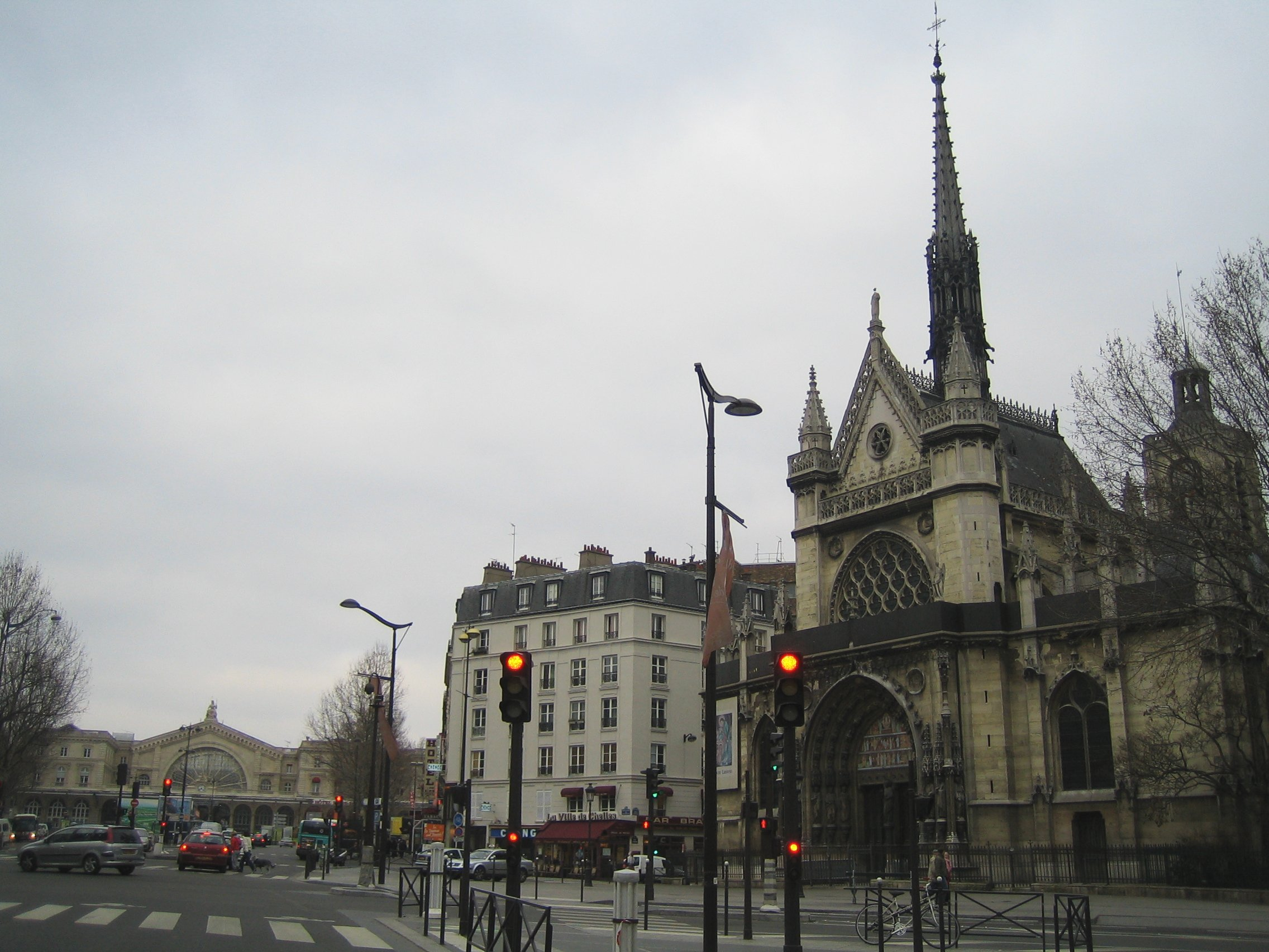 Eglise Saint-Laurent, boulevard de Strasbourg and Gare de l'Est in Paris.